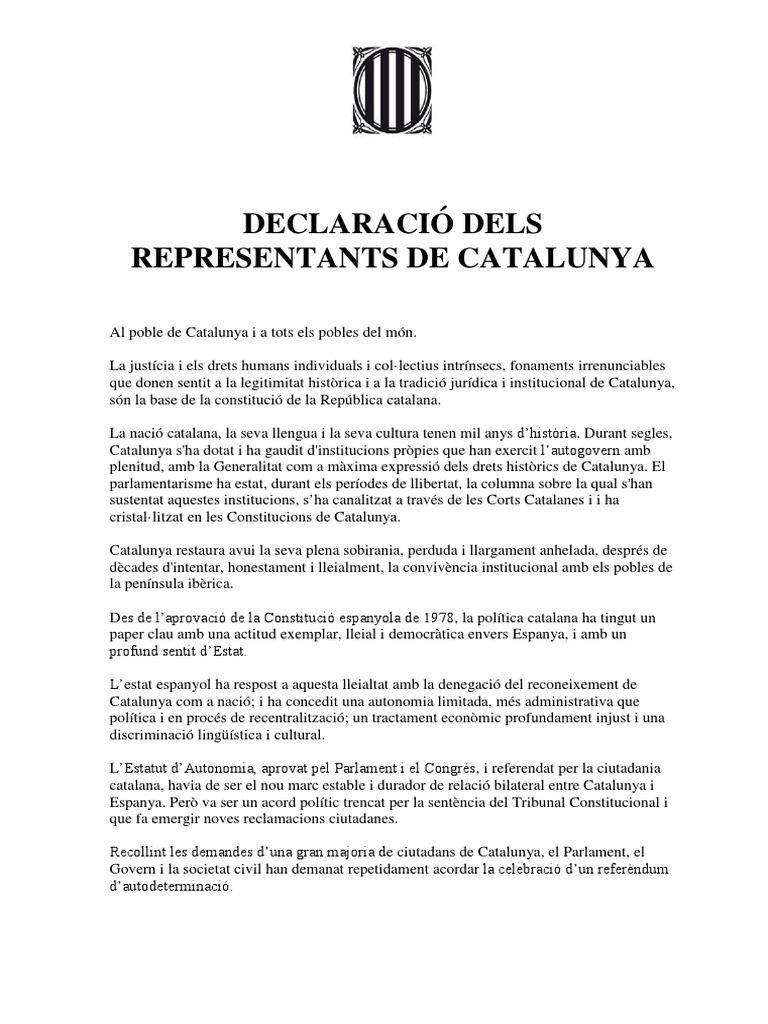 Catalan Declaration of Independence in Catalan